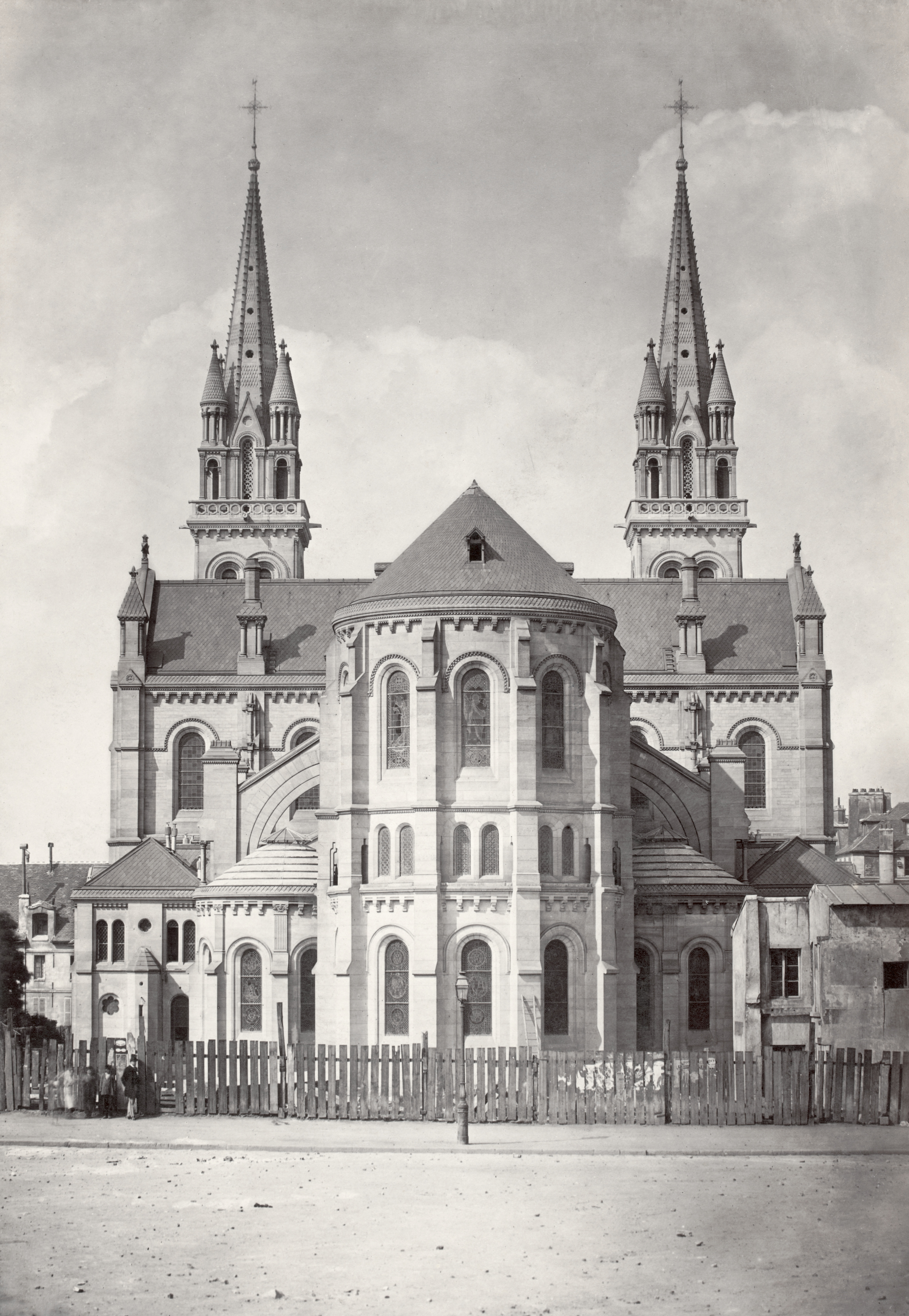 Looking across street towards exterior view of transcept, spires visible behind gabled roof.